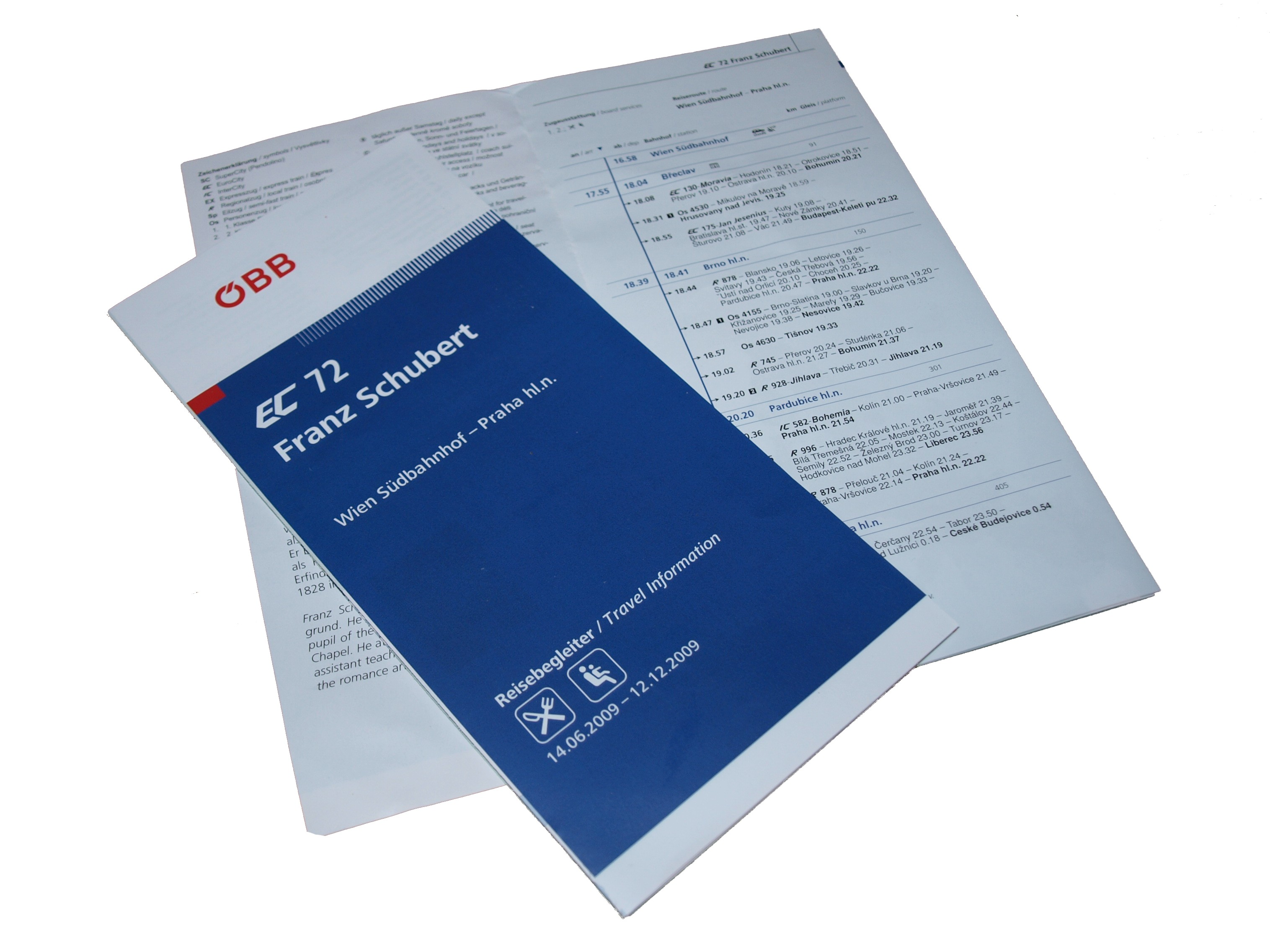 Railway guide for EC 72 Franz Schubert from Prague to Wien